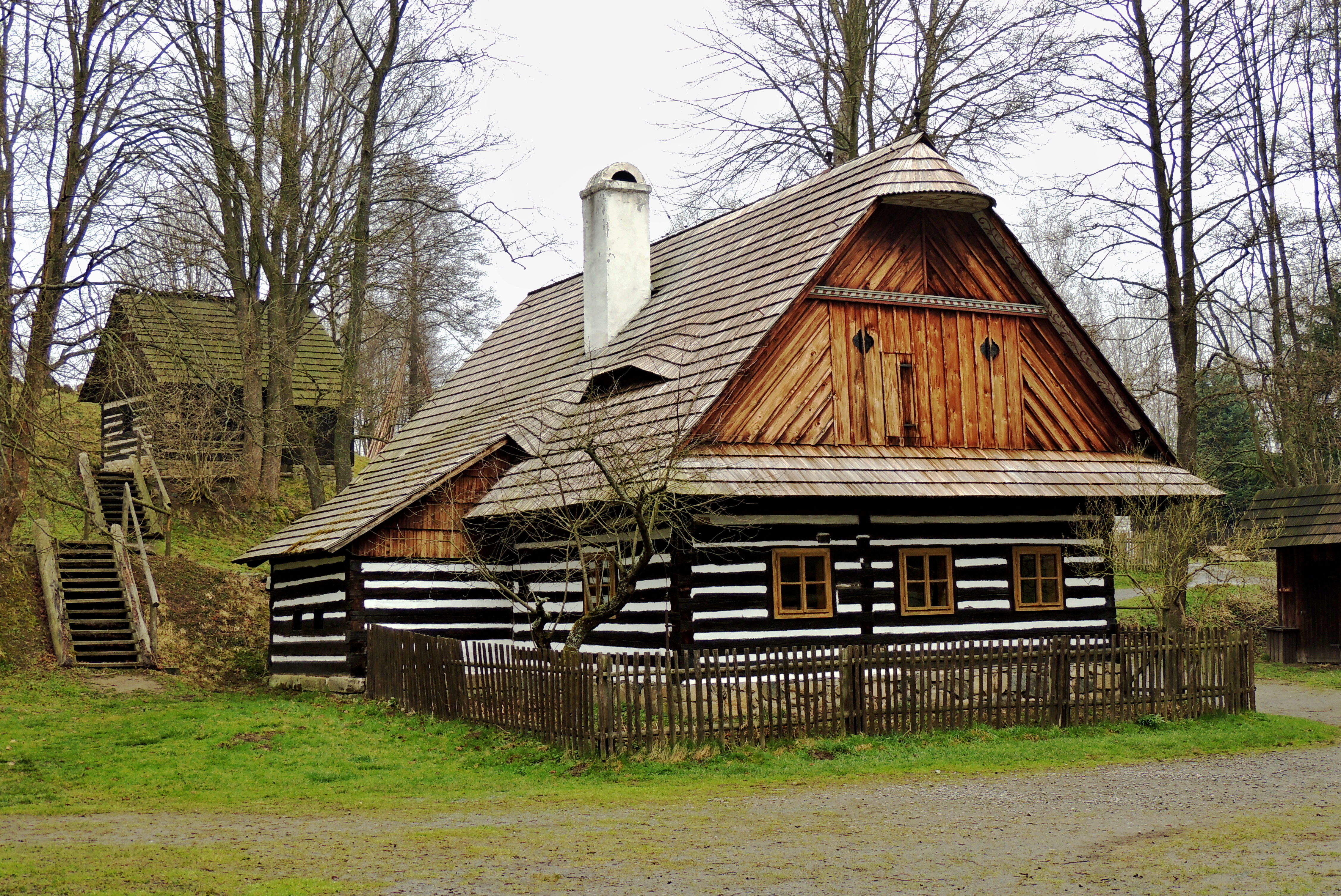 Water mill in the exposition Veselý Kopec, Open-air Museum Vysočina (until 10 December 2018 named: Set of Folk Buildings Vysočina). The water mill into the exposition was transferred from the village of Oldřetice near Skuteč to the original place of the same type mill (burnt down in 1909). Open-air museum, in the Czech Republic popularly called "skanzen", it consists of two complexes with expositions of folk architecture, in locality Veselý Kopec (part of municipality Vysočina) and monument reservation with name Betlem in the town Hlinsko. Exhibits and seasonal expositions in the Veselý Kopec locality represent the housing and breeding of small farmers from the mid-19th century until the middle of the 20th century. The Betlem monument reserve consists of folk buildings from the 18th to 19th centuries. The buildings of folk architecture is located in the center of Hlinsko, on the right bank of the river Chrudimka. Cultural monuments since 2003 are administered by the National Monument Institute of the Czech Republic. With effect from 11 December 2018, the expositions are part of the National Open-air Museum. Administration of the Open-air Museum Vysočina, Příčná 350, 539 01 Hlinsko. Photo-location: Czechia, Pardubice Region, municipality Vysočina, localited settlement and exposition Veselý Kopec.